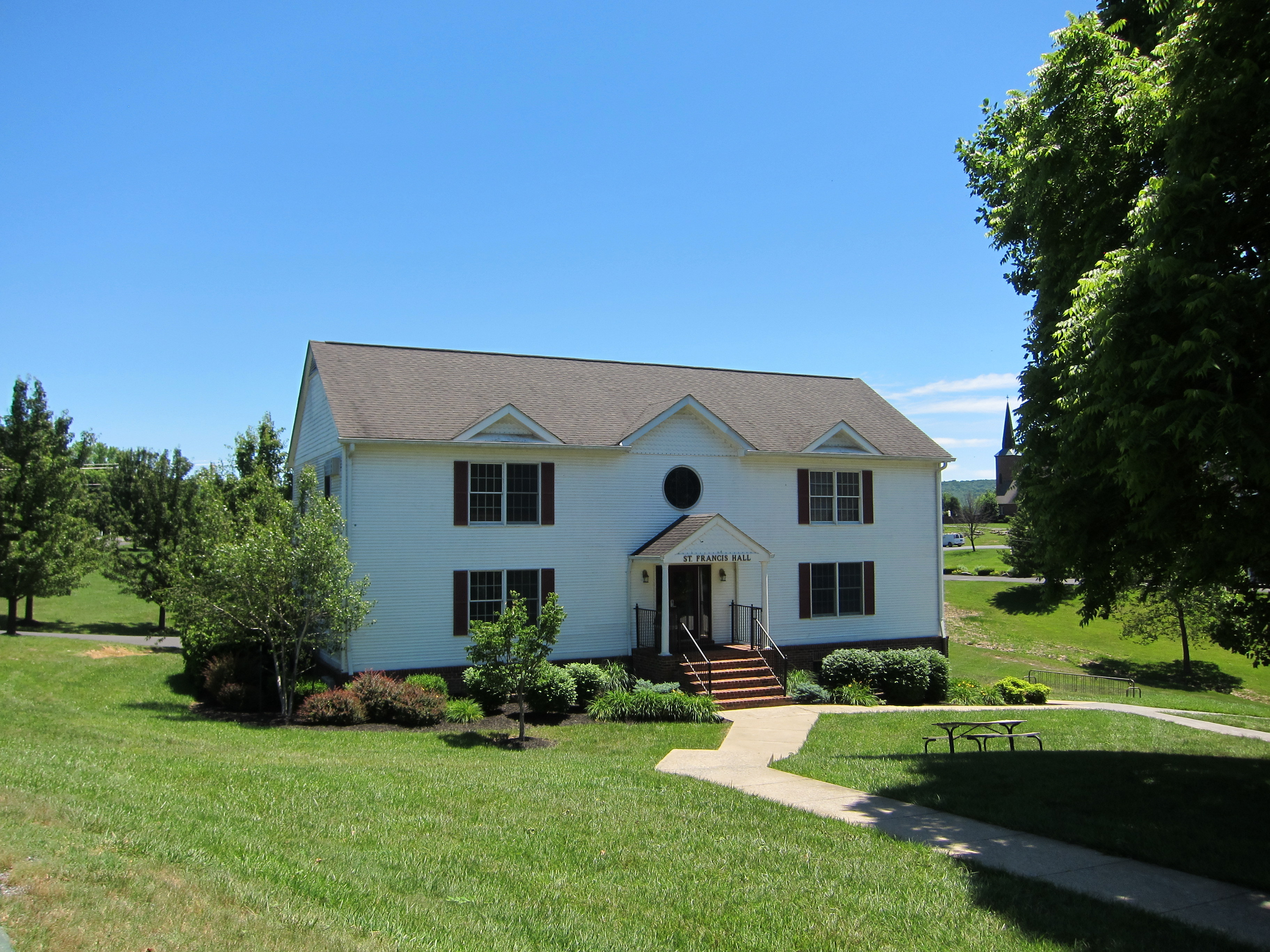 St. Francis Hall men's dormitory at Christendom College, a liberal arts Catholic college in Front Royal, Virginia, United States.